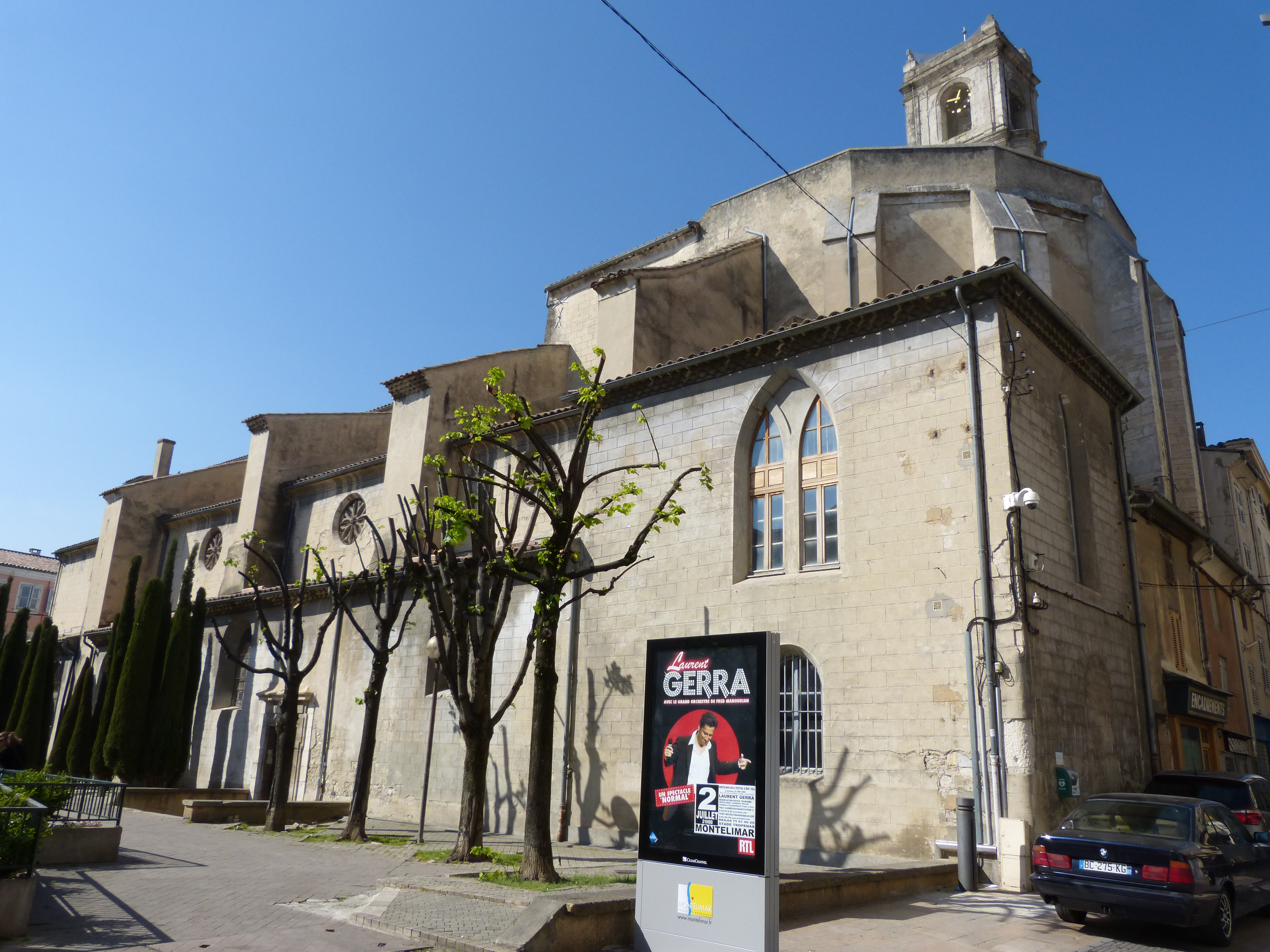 South-est view from the collegiate church Sainte Croix in Montélimar.